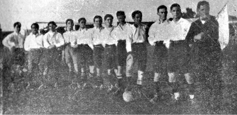 Team of Estudiantes de BB, football champion